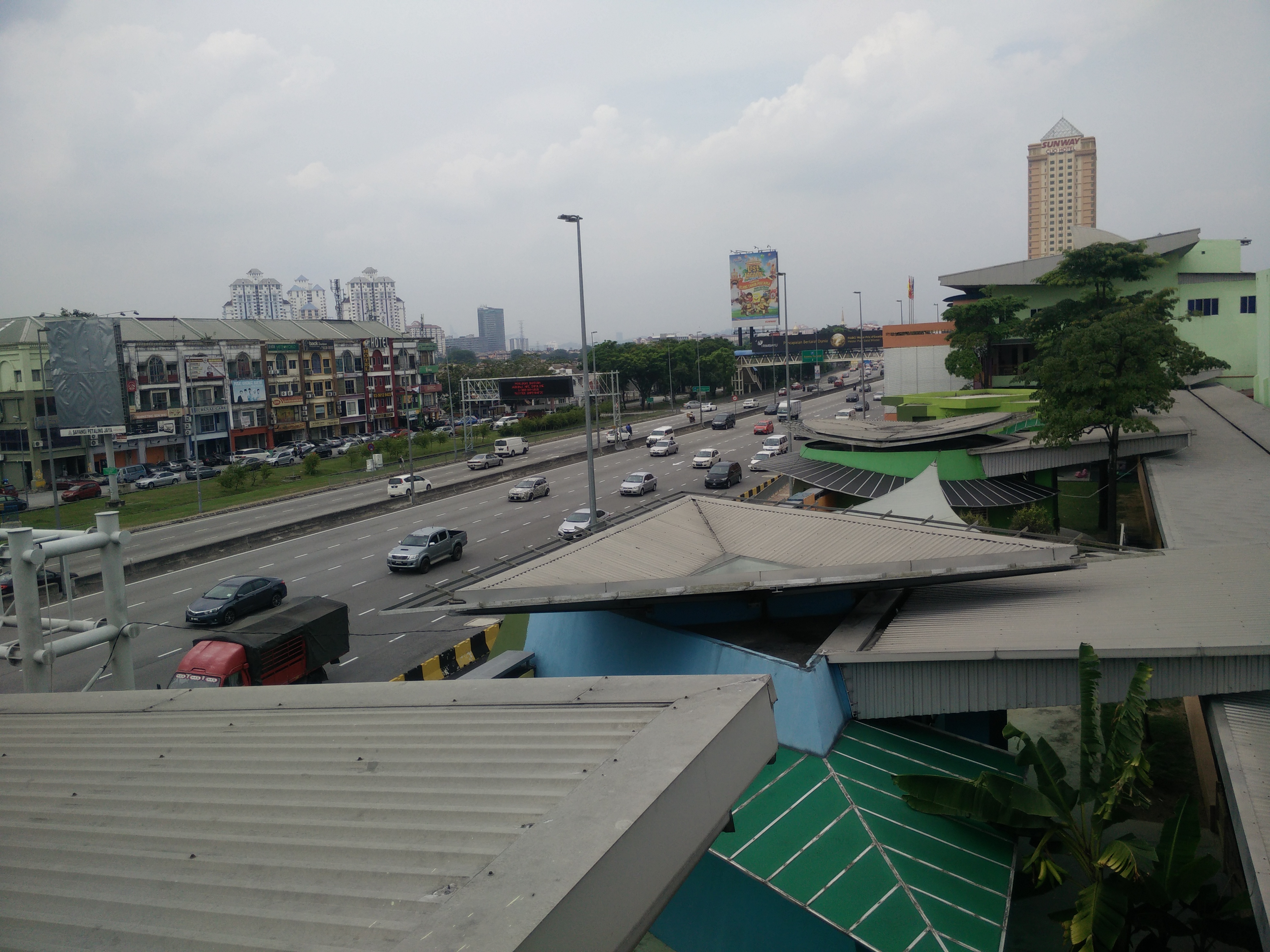 A picture I took at 3K Sports Complex Subang Jaya (Malaysia).